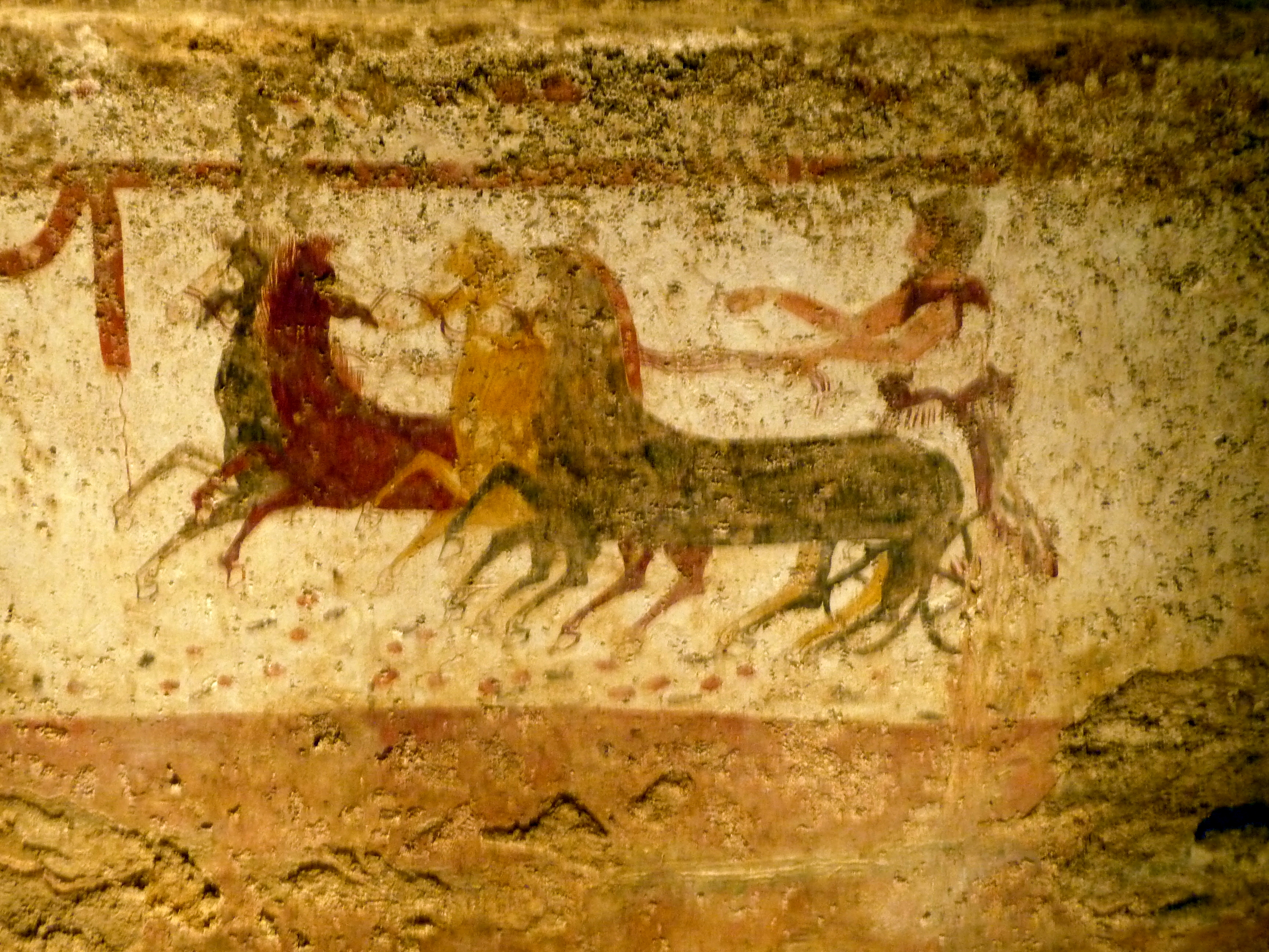 Lucanian tomb of Paestum, with frescoes depicting a quadriga, 4th century BC